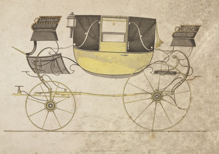 Print, one of a series of nine showing early 19th century carriages, published by R Ackermann, 101 Strand, London.